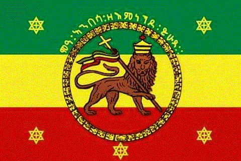 Imperial Standard of Haile Selassie I of Ethiopia (obverse).